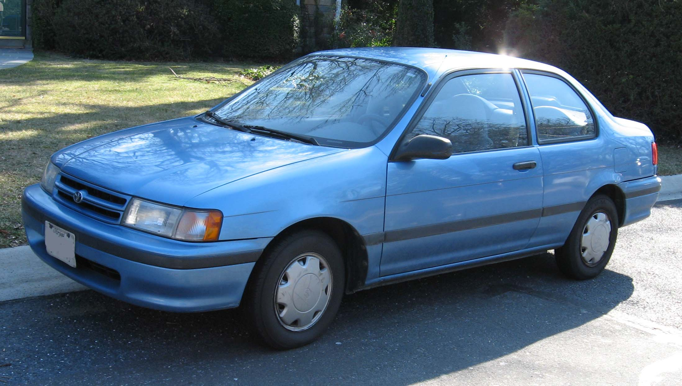 1993-1994 Toyota Tercel photographed in USA.